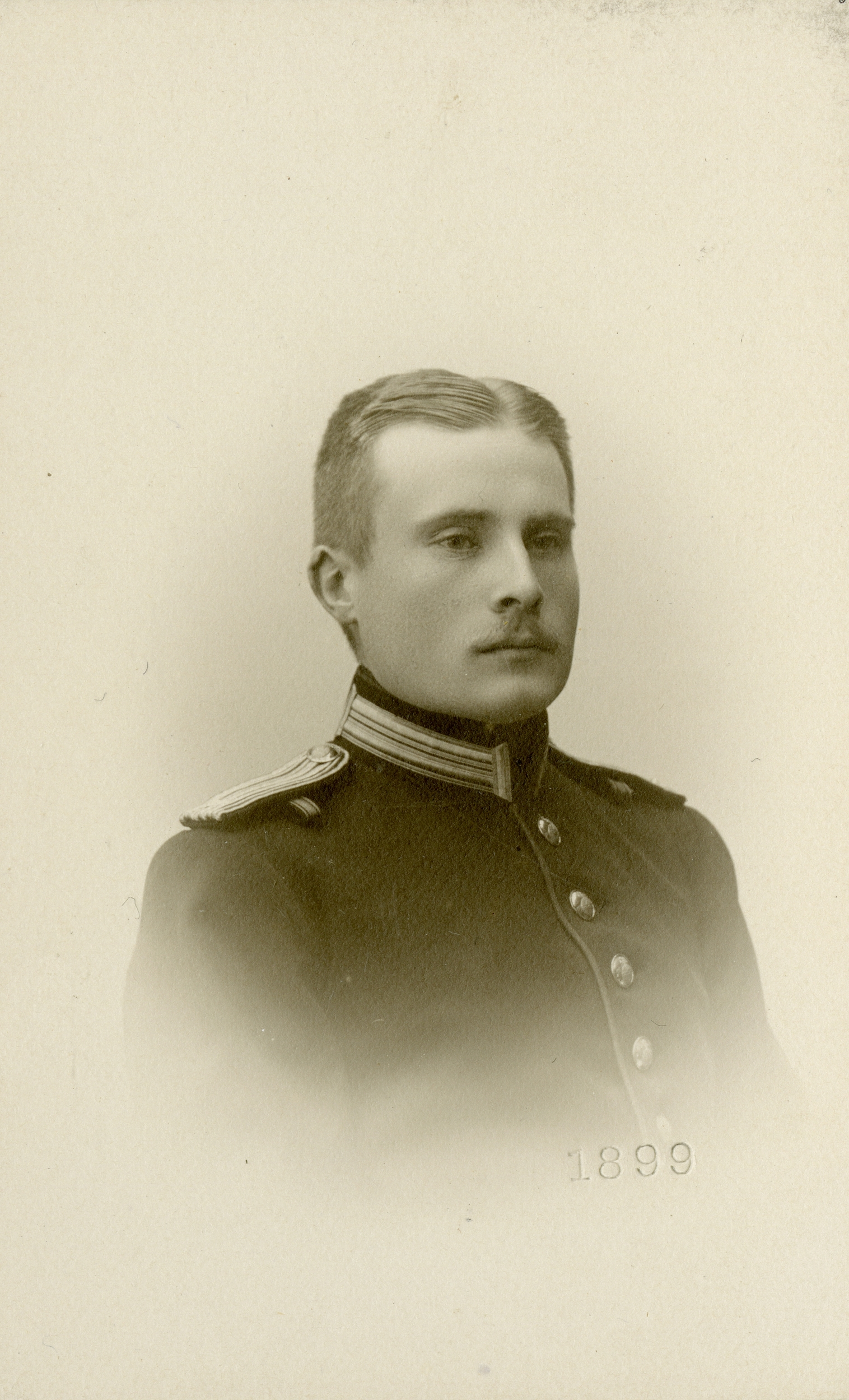 Portrait photo of Swedish Army Lieutenant Olof Thörnell (1877-1977). Thörnell would later become a 4-star General and the first Sumpreme Commander of the Swedish Armed Forces between 1939 and 1944.